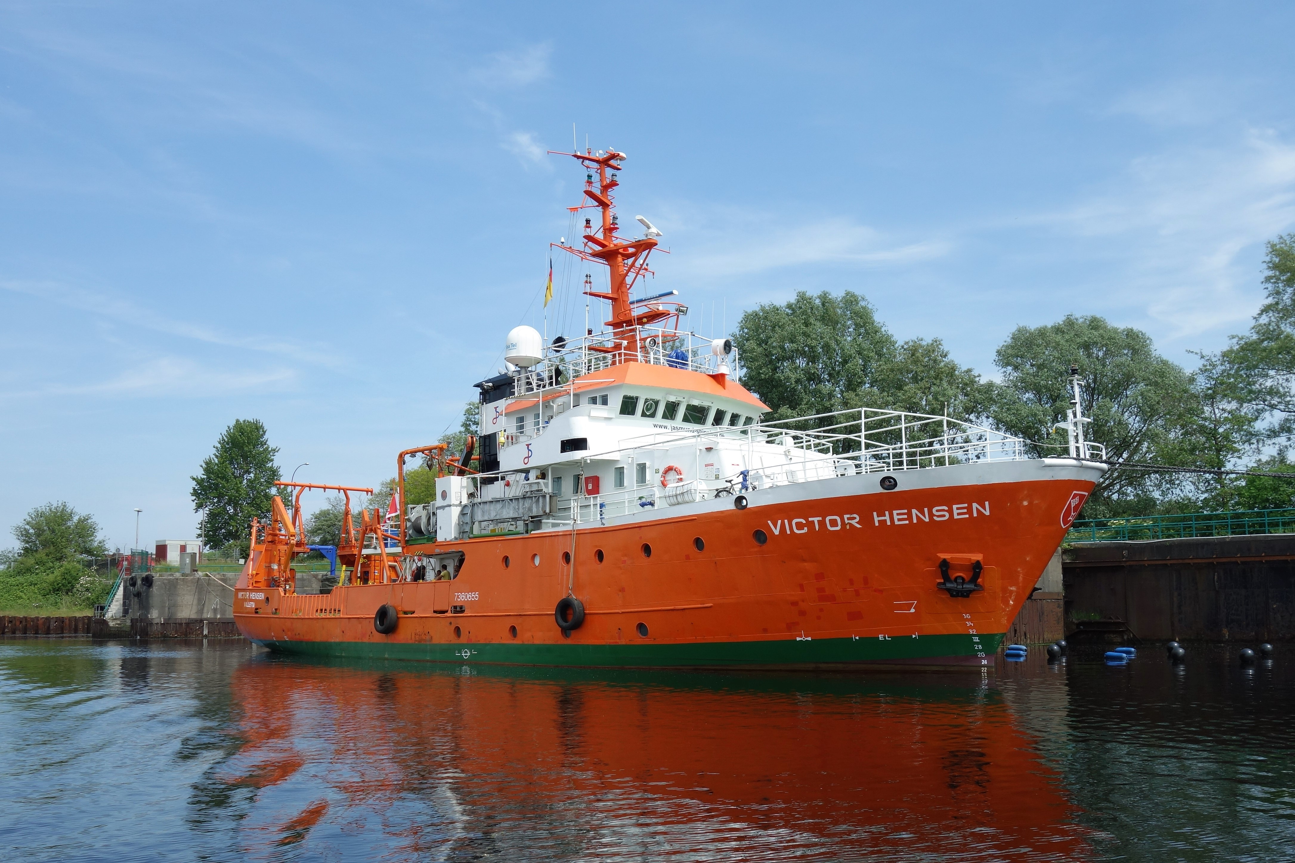 Victor Hensen laid up in Wilhelmshaven